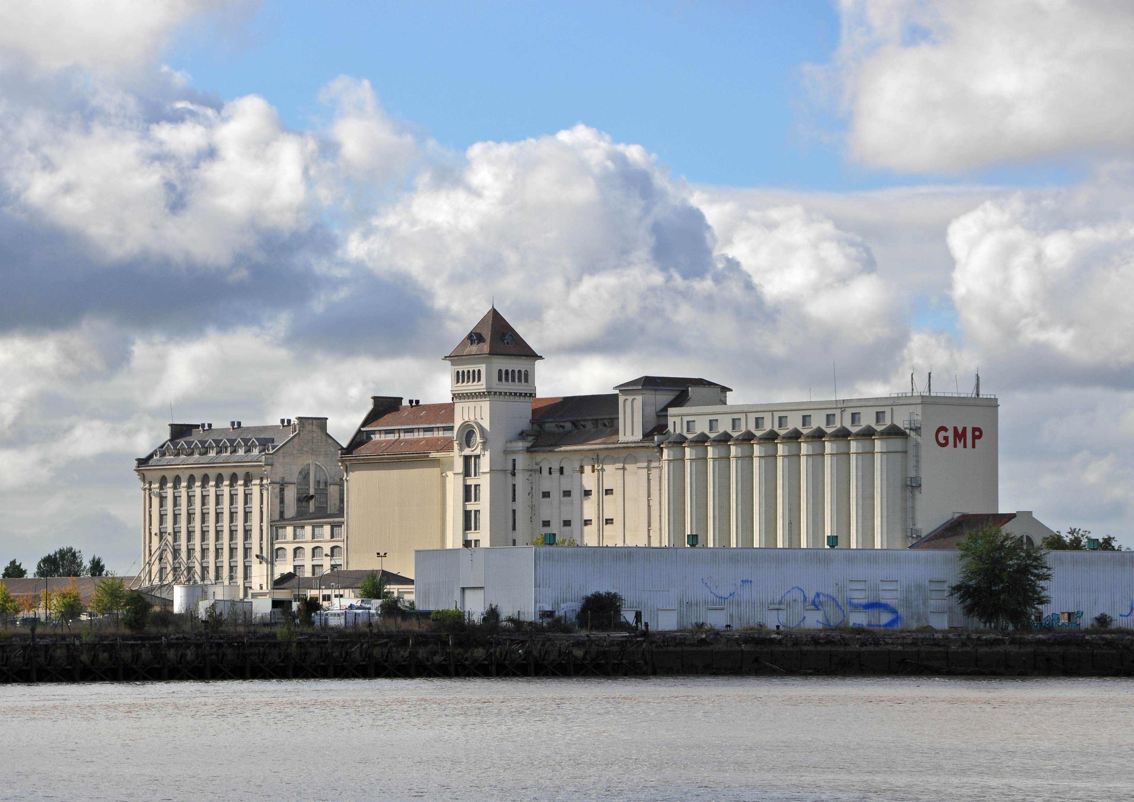 Bordeaux (France): flour mill Grands Moulins de Paris (GMP)